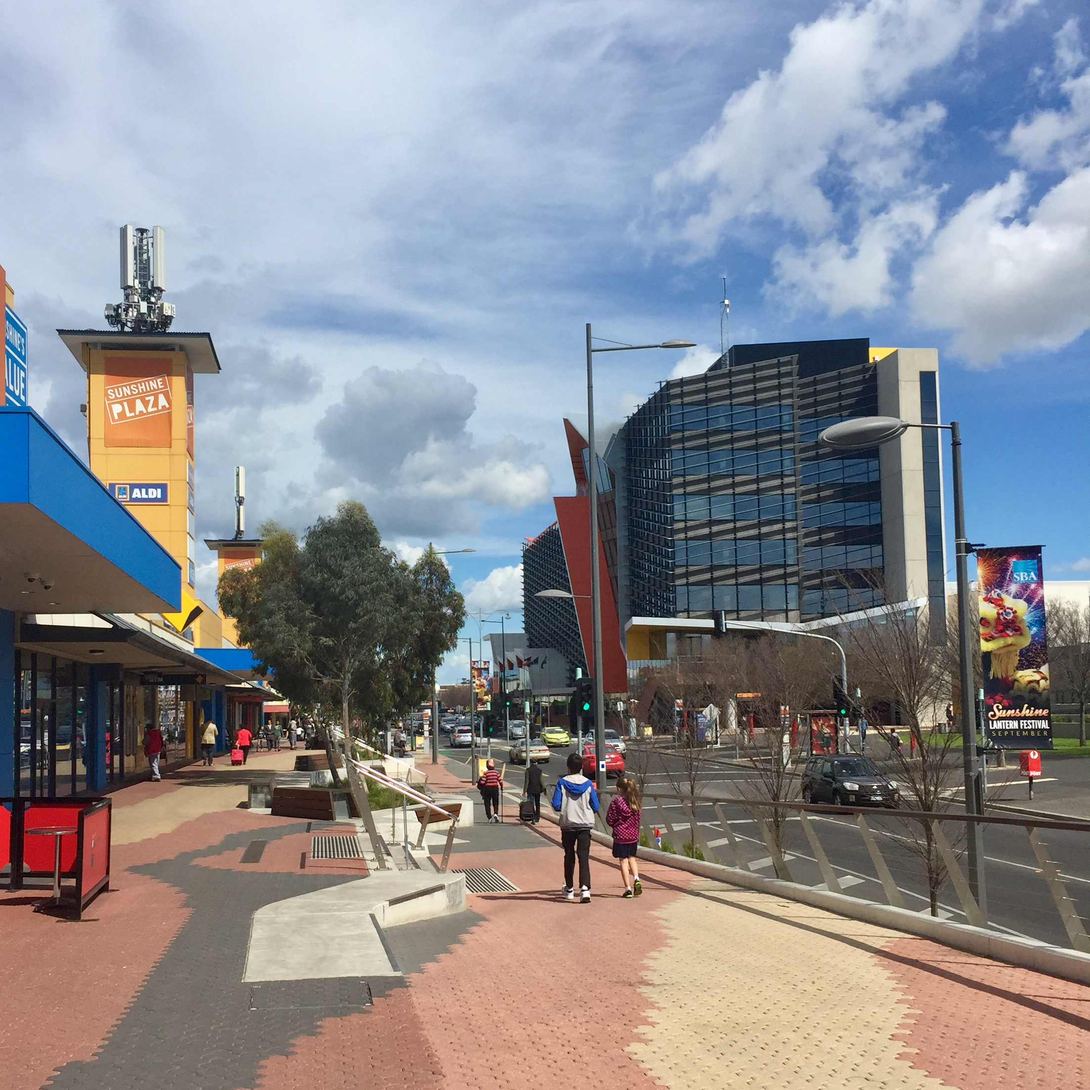 Hampshire Rd, Sunshine town centre, looking southwards. Brimbank Council head offices incorporating Sunshine Library are on the right. Sunshine Plaza is on the left.